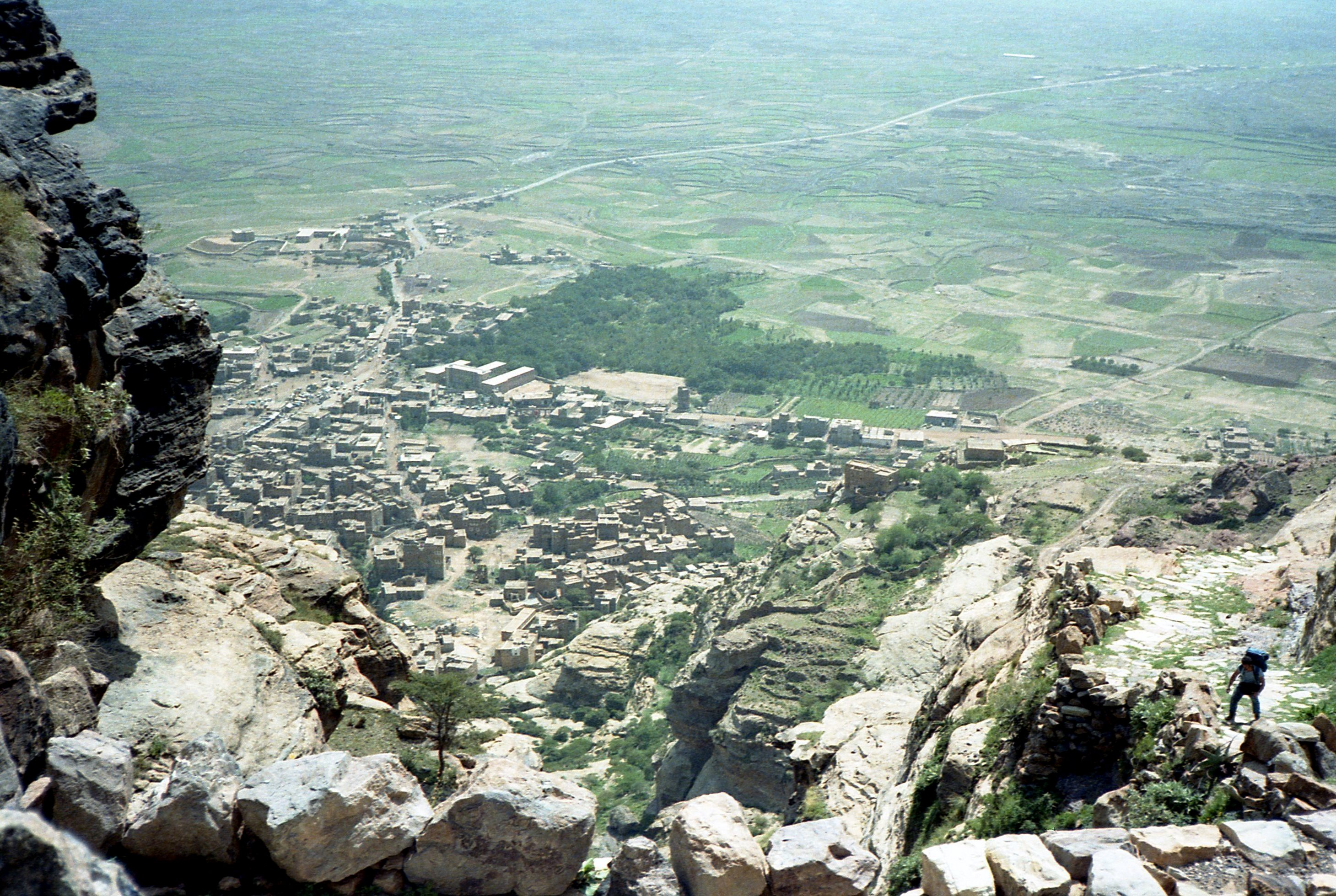 Shibam seen from Kawkaban, Yemen